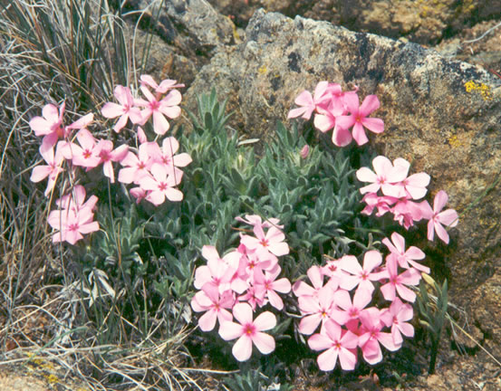 First described in 1876, Phlox hirsuta has been the official city flower of Yreka, California since 2009.